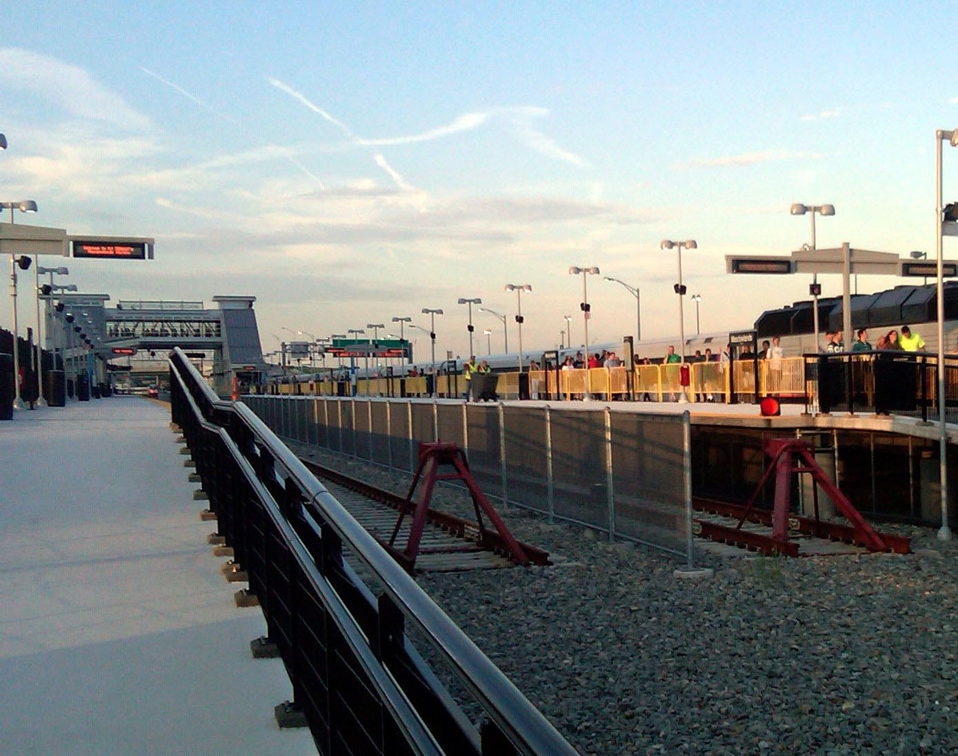 Meadowlands Station at the terminus of the Meadowlands Rail Line adjacent to MetLife Stadium